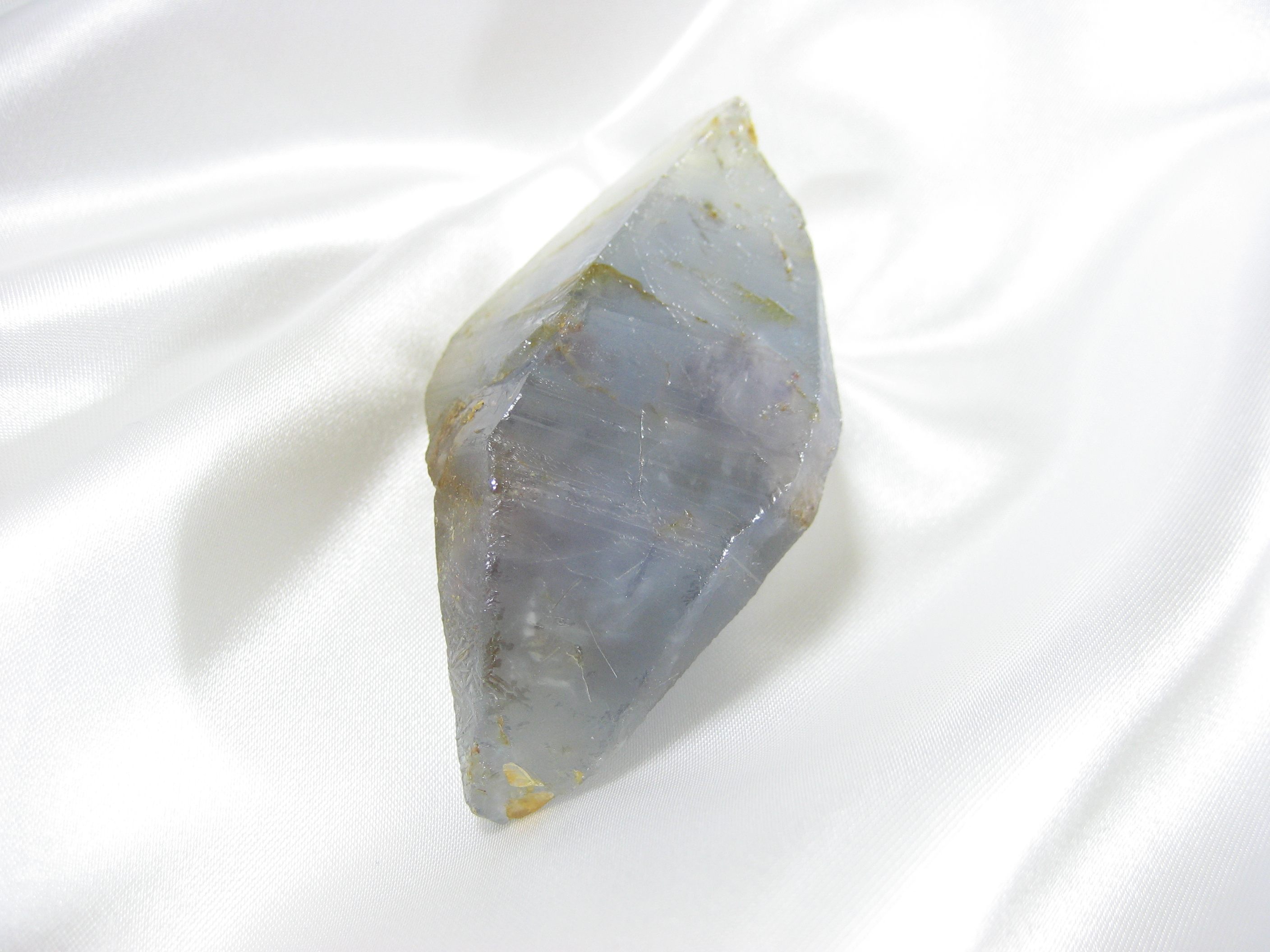 Blue Sapphire